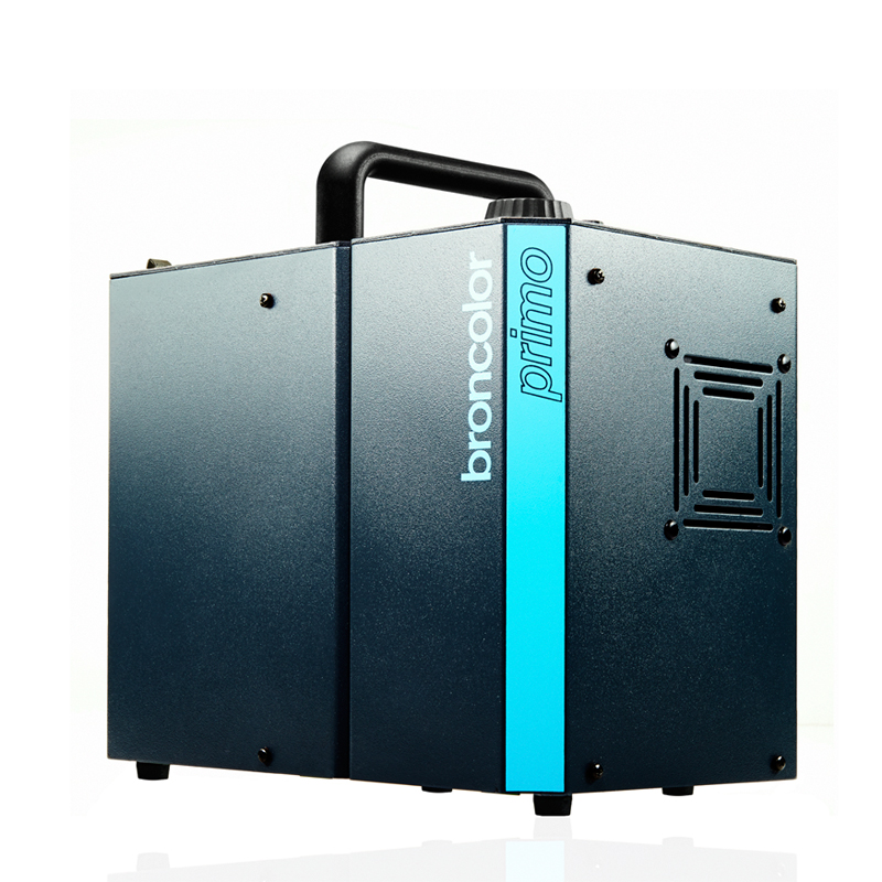 Broncolor Primo Power Pack